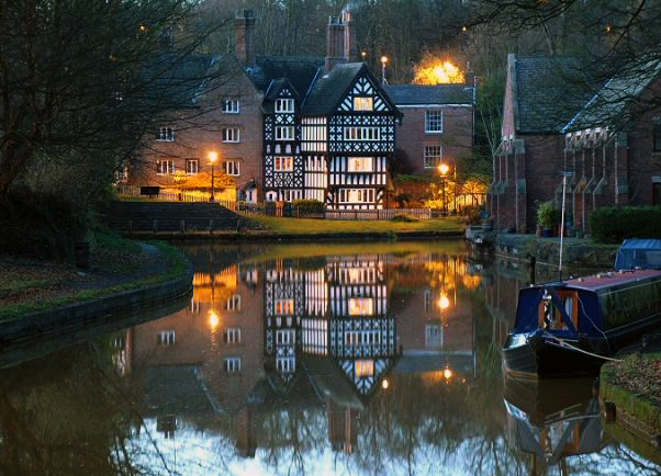 Bridgewater Canal at Worsley, Greater Manchester, England. The tudor building is the Packet House. The canal used to service the extensive labyrinth of coal mines in the area.